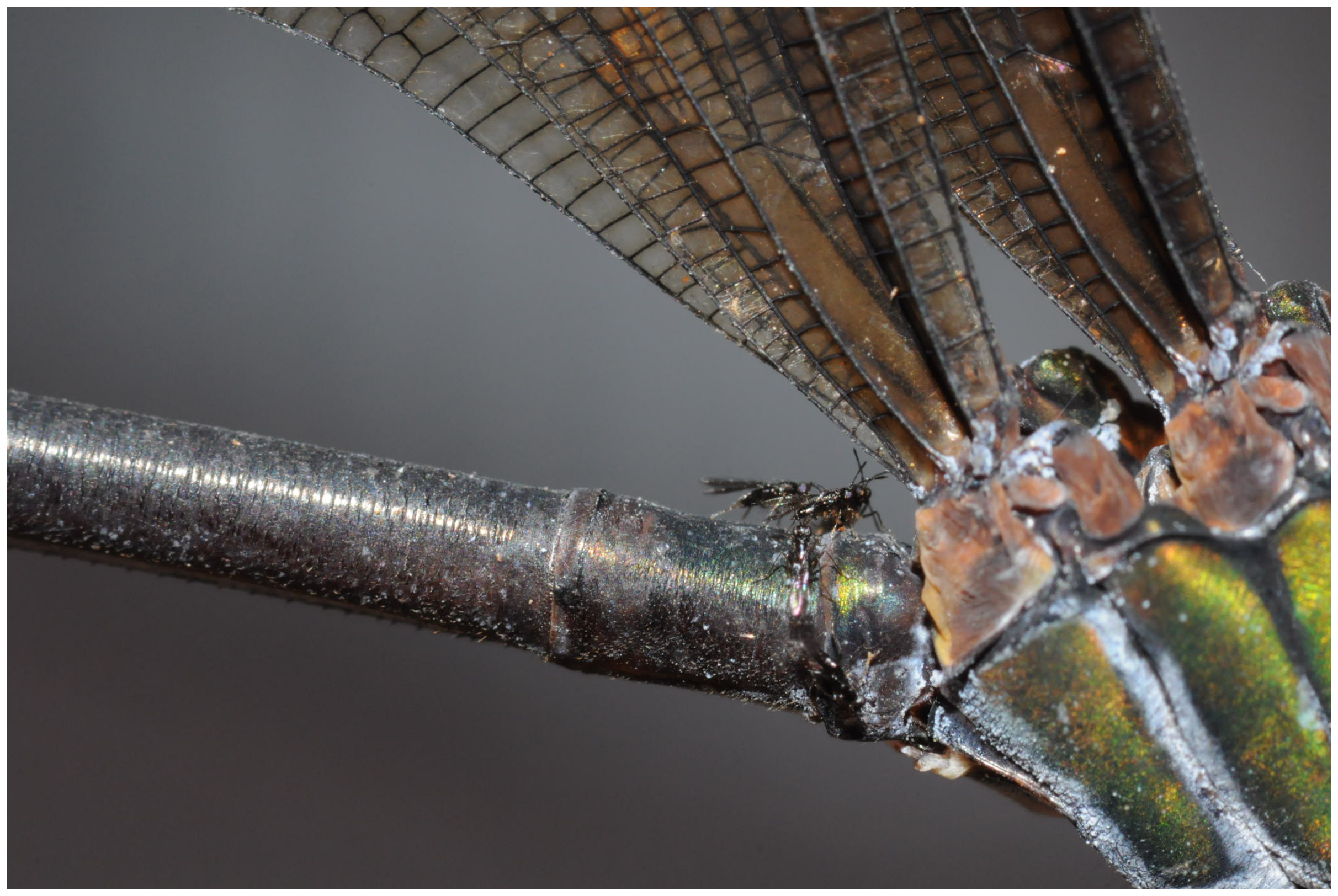 Detail of Psolodesmus mandarinus mandarinus with female of Hydrophylita emporos phoretic on base of abdomen.